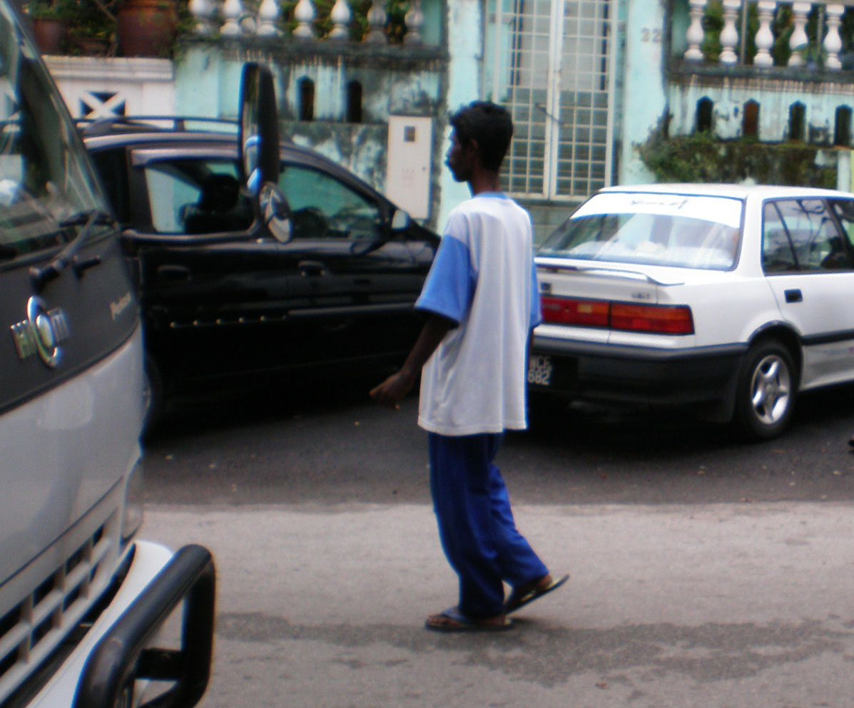 Picture of Malaysian Valet Boy